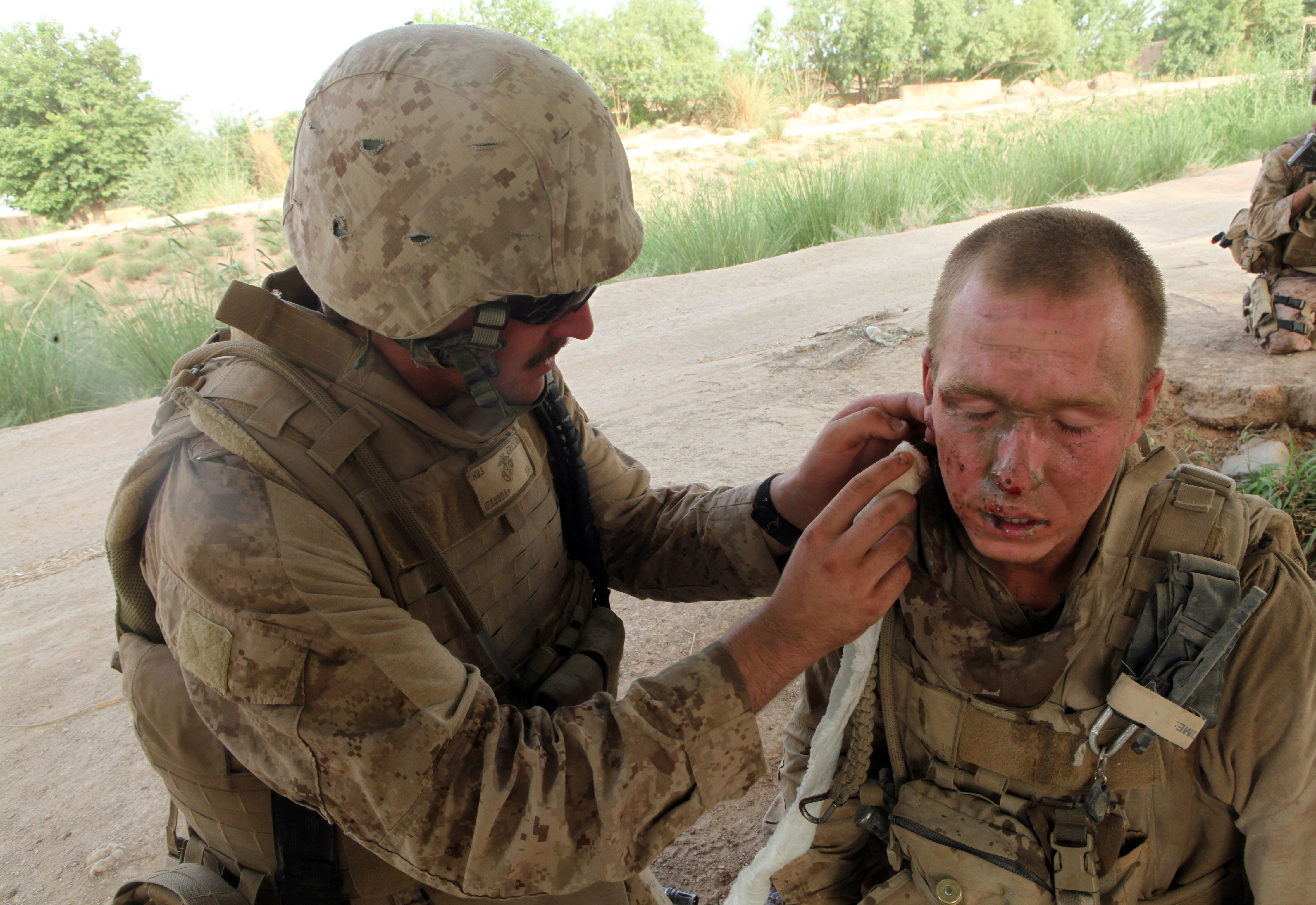 MARJAH, Afghanistan (May 1, 2010) Hospital Corpsman 3rd Class Bradley Erickson, assigned to 1st Platoon, India Company, 3rd Battalion, 6th Marine Regiment, Regimental Combat Team 7, cleans facial wounds for Lance Cpl. Timothy Mixon after an improvised explosive device attack during a patrol. The unit is deployed supporting the International Security Assistance Force. (U.S. Marine Corps photo by Cpl. Michael J. Ayotte/Released)